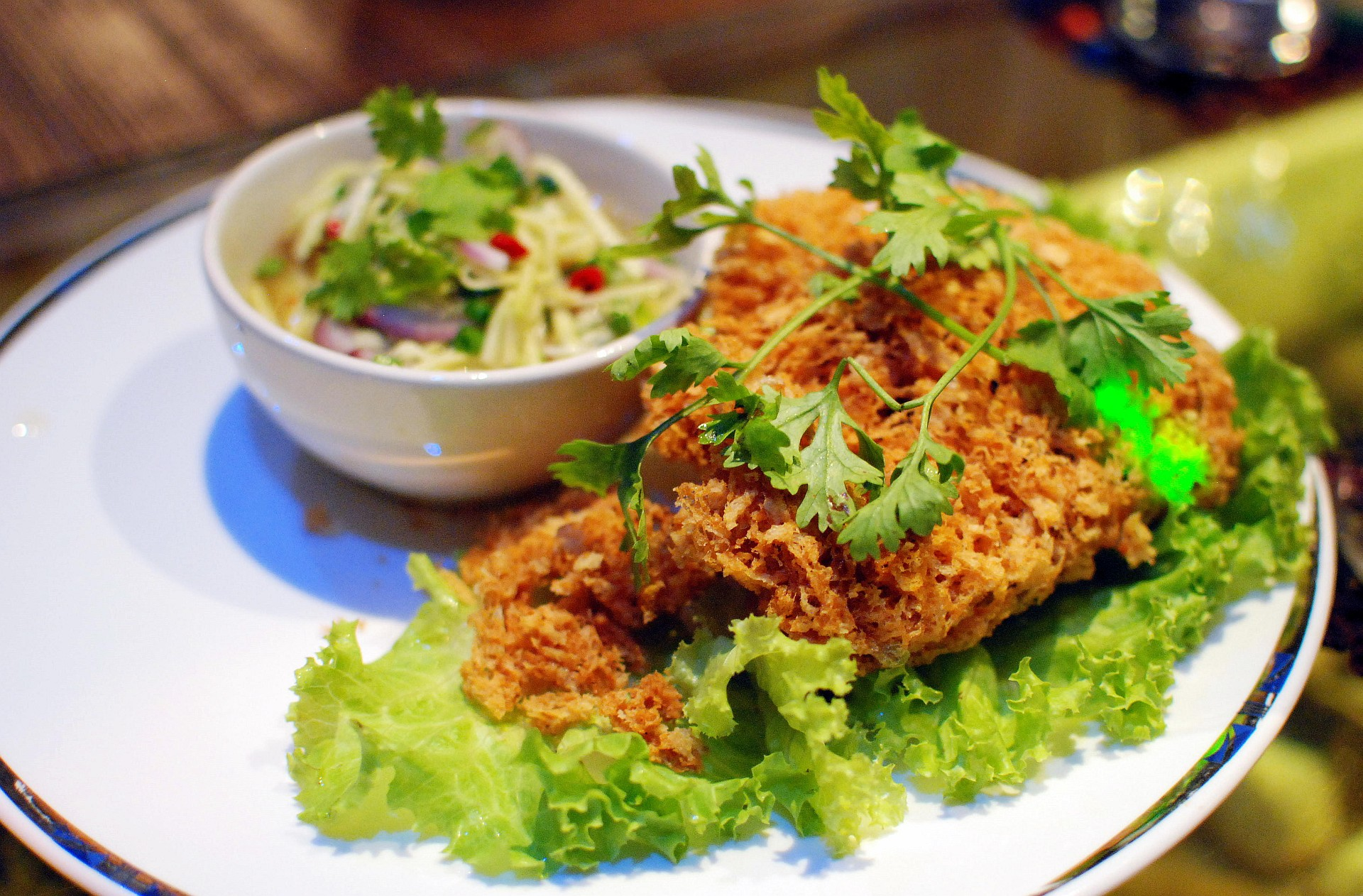 Yam pladuk fu (Thai: ยำปลาดุกฟู): salad of "fluffy" catfish. The dish is made with dried catfish (pladuk, Thai: ปลาดุก) which has first been shredded and then deep fried until crispy. It can be topped with a salad made from thinly sliced green (unripe and tangy) mango, shallots, fish sauce, chillies, lime juice, sugar and coriander leaves, or as seen here, the salad served on the side to prevent the crispy fish from turning soggy. It can be eaten as a snack, a starter, or as one of the main course dishes of a full meal.